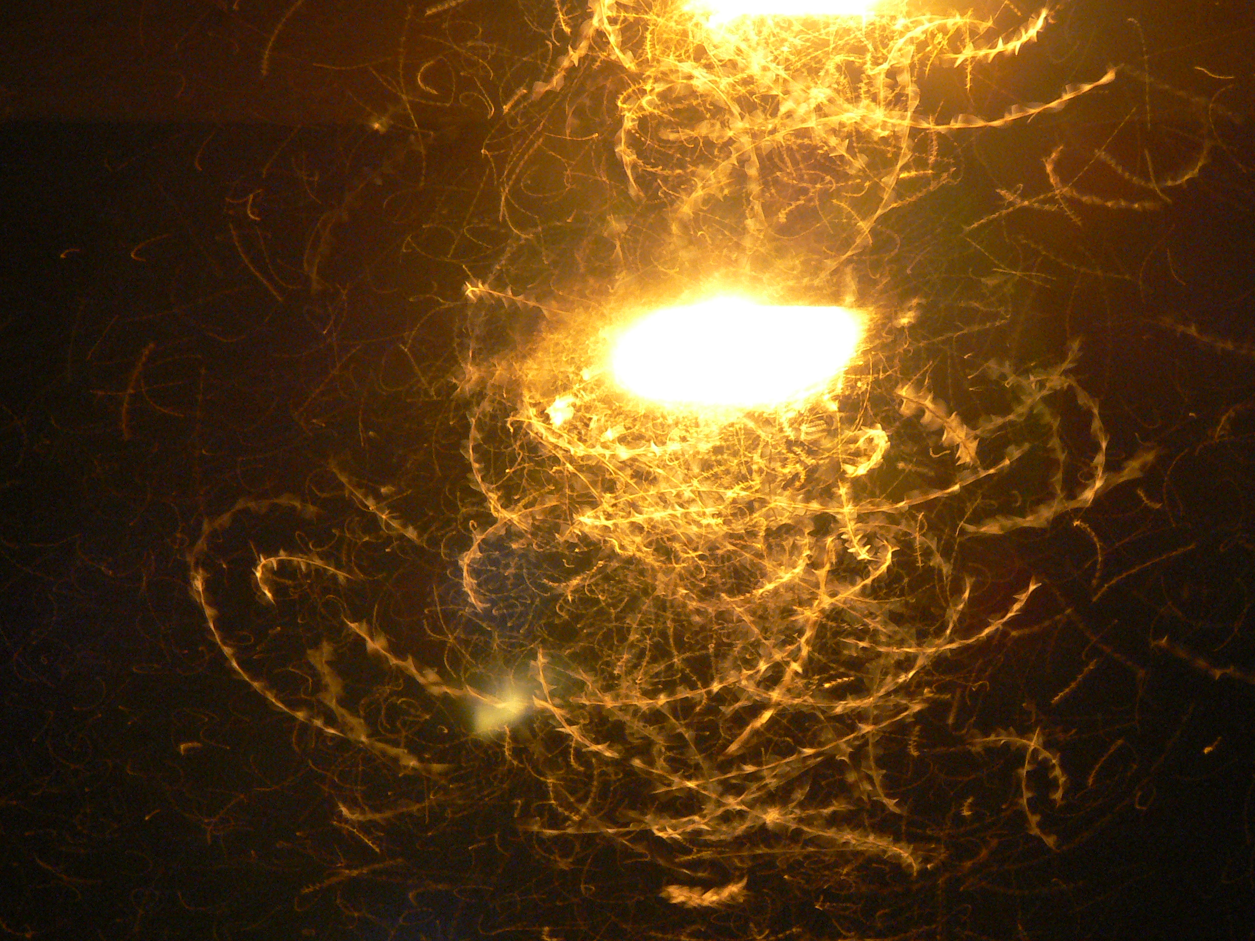 Lignt pollution killing Aeroplankton in Meung-sur-Loire, above the river Loire (France). A lot of insects are trapped by light. (And during all the day thousands of swallows hunt them). During the night a large number of bats and spiders captured in the unusually high number because of phenomena of light pollution where it exists (as here).